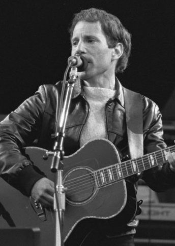 Paul Simon performing at the Feijenoord Stadion, Rotterdam, The Netherlands in 1982.